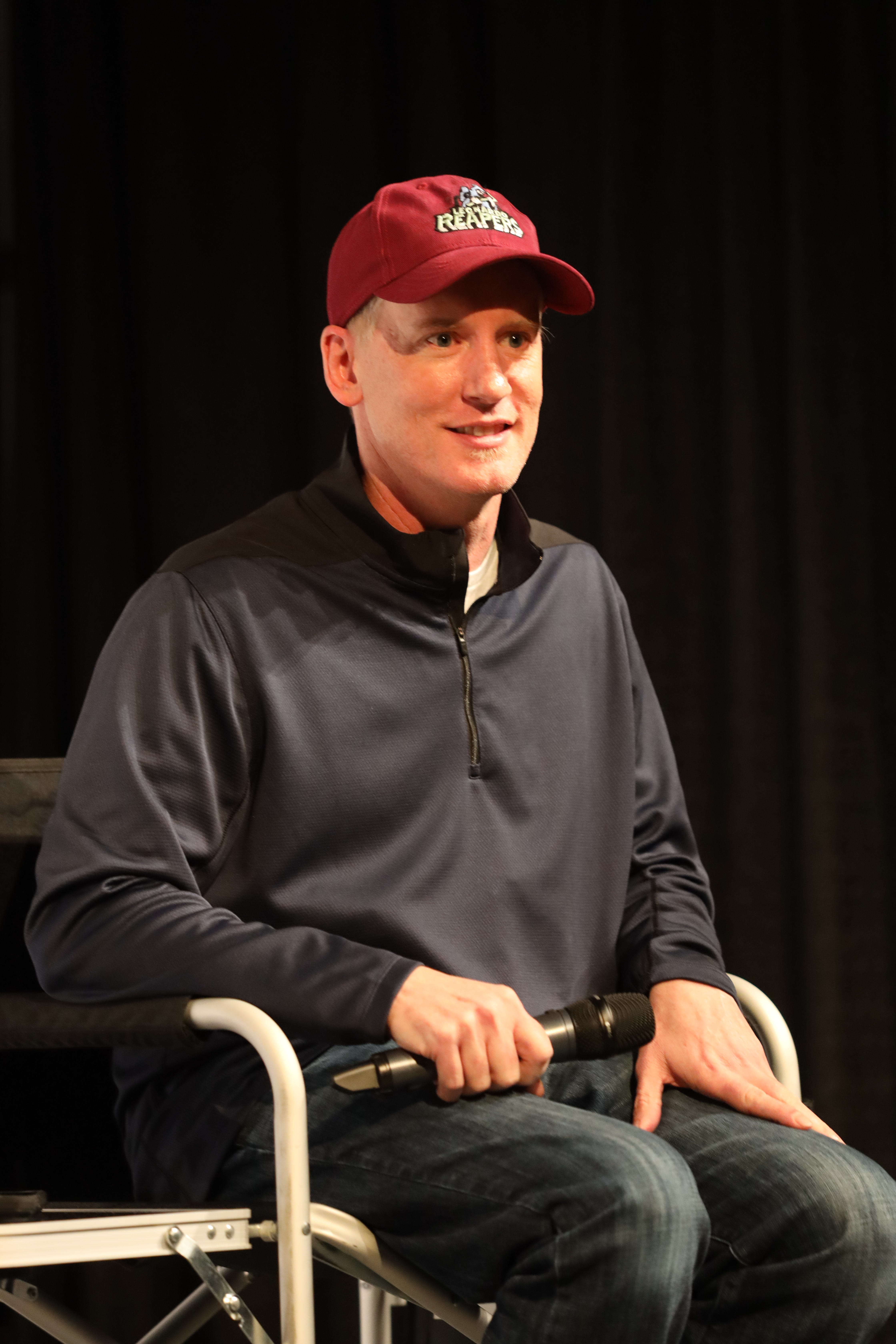 Jeff Anderson at GalaxyCon Richmond in 2020